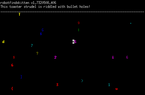 robotfindskitten POSIX version by Leonard Richardson